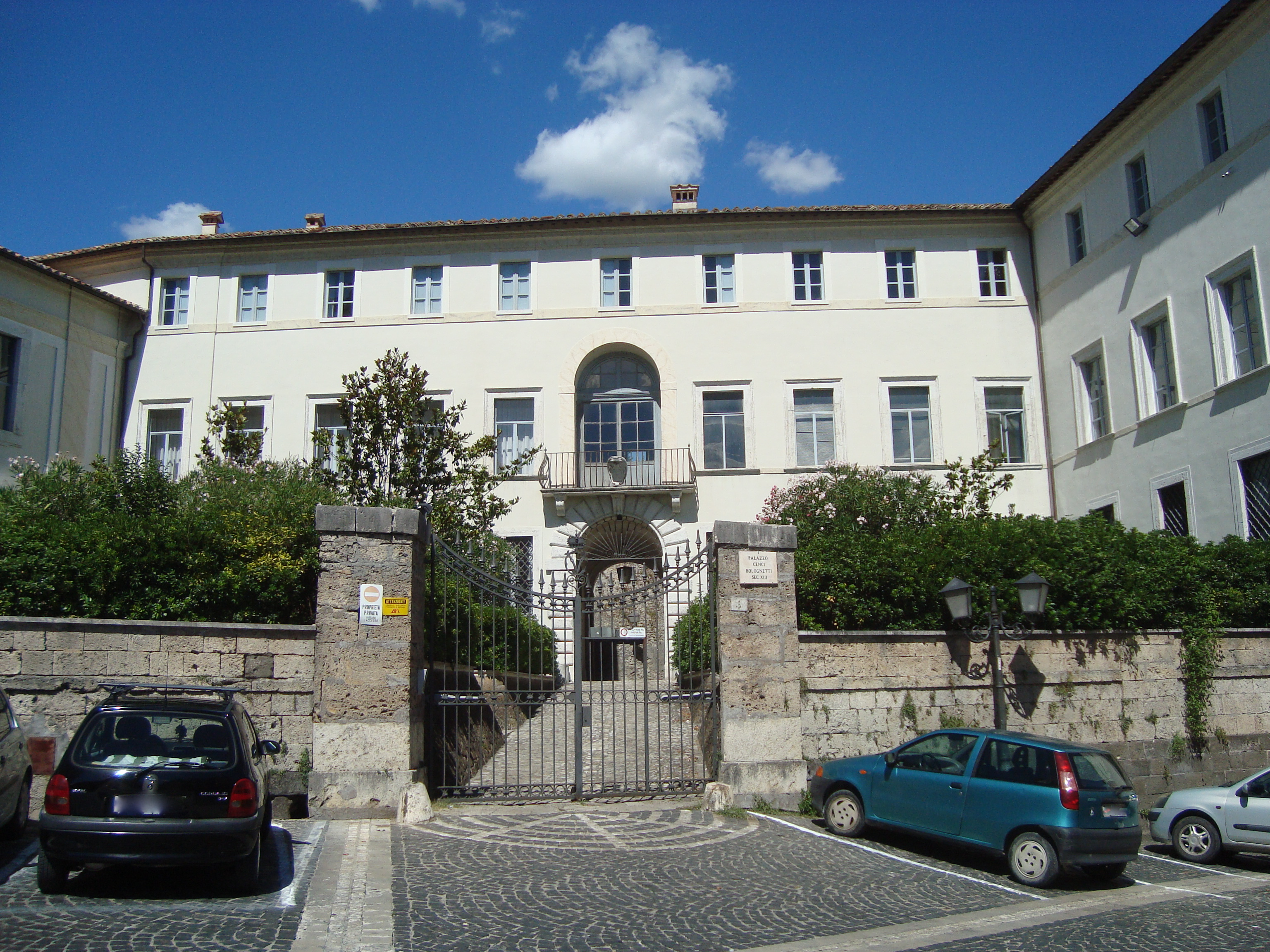 The palazzo Cenci Bolognetti in Vicovaro. 13th century